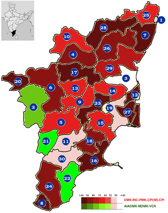 Used Inkscape on TN Districts Numbered.png, for use in 2006 tamil nadu lok sabha election page. The map is a wikipedia tamil nadu district map. Used the information about assembly seats to districts from Districts: 1. Chennai 2. Coimbatore 3. Cuddalore 4. Dharmapuri 5. Dindigul 6. Erode 7. Kancheepuram 8. Kanniyakumari 9. Karur 10. Krishnagiri 11. Madurai 12. Nagapattinam 13. Nammakkal 14. Perambalur 15: Pudukkotai 16. Ramanathapuram 17. Salem 18: Sivaganga 19: Thanjavur 20. Nilgris 21. Theni 22. Thoothukudi 23. Tiruchirappalli 24. Tirunelveli 25. Tiruvallur 26. Tiruvanamalai 27. Tiruvarur 28. Vellore 29. Villupuram 30. Virudhanagar